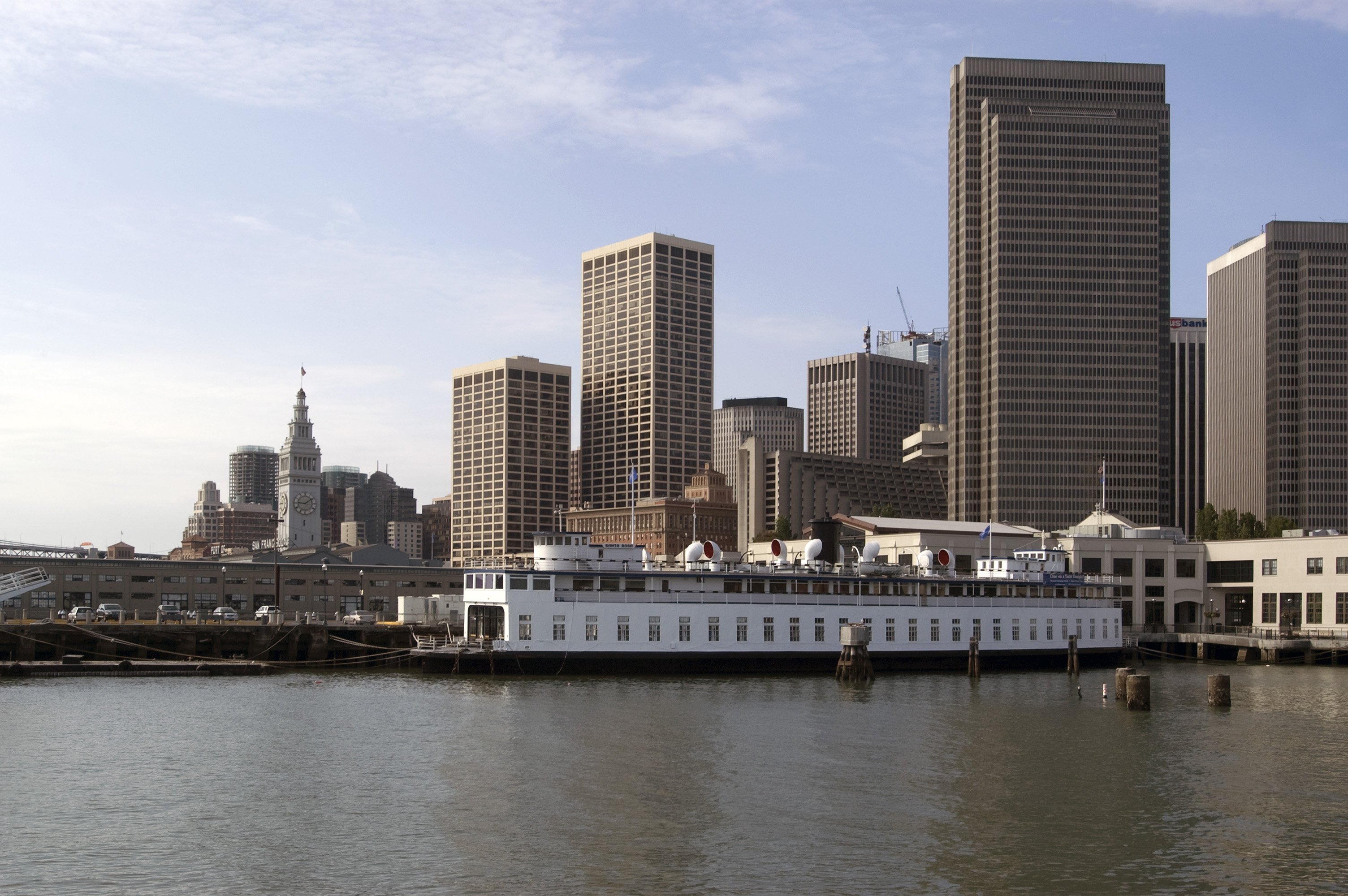 Ferryboat MV Santa Rosa, built in 1927, berthed at Pier 3 in San Francisco, California. Camera positioned on Pier 5. Tower of Ferry Building can be seen at left.